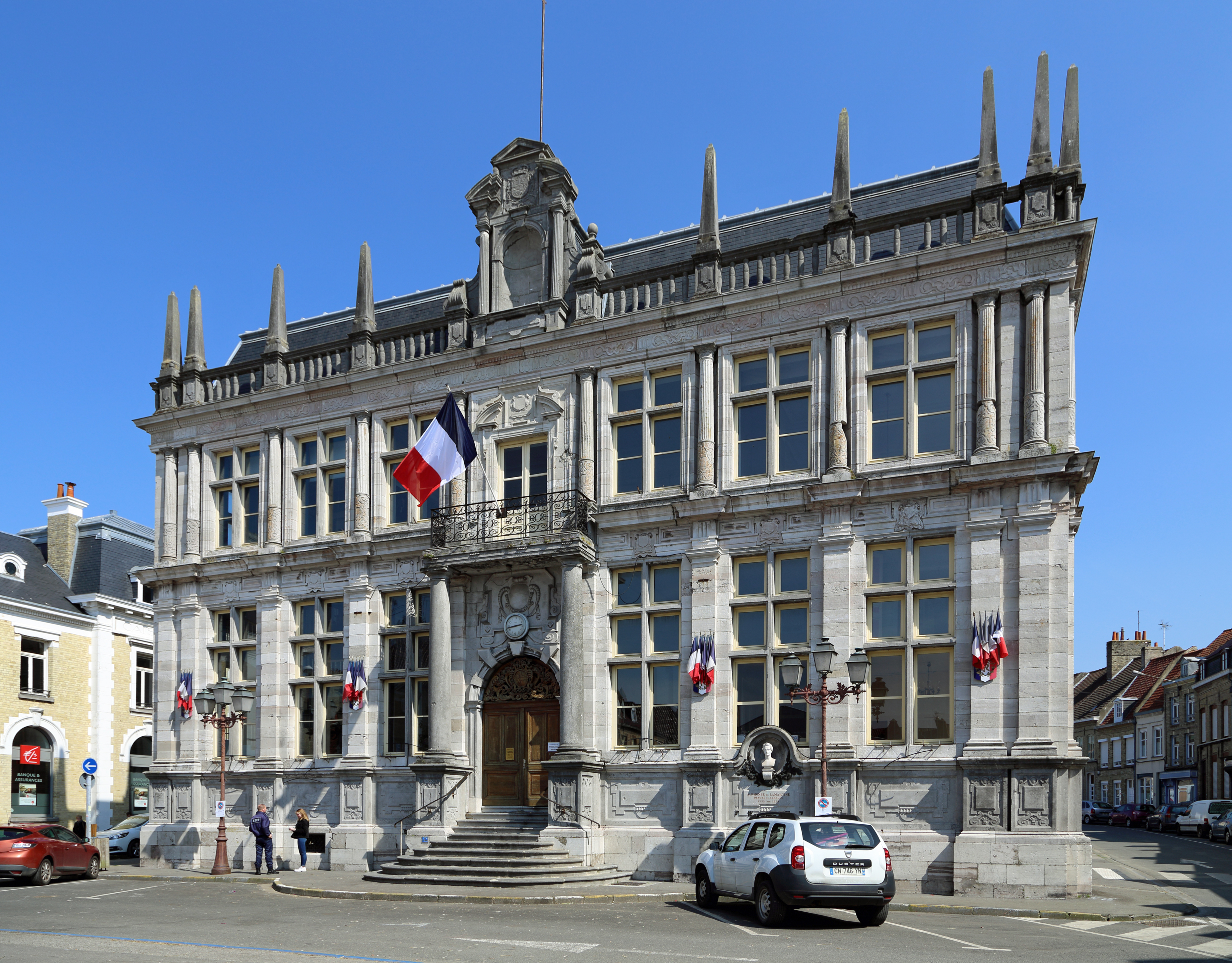 Bergues (Nord department, France): town hall